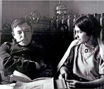 August Macke (1887-1914) and his wife Elisabeth